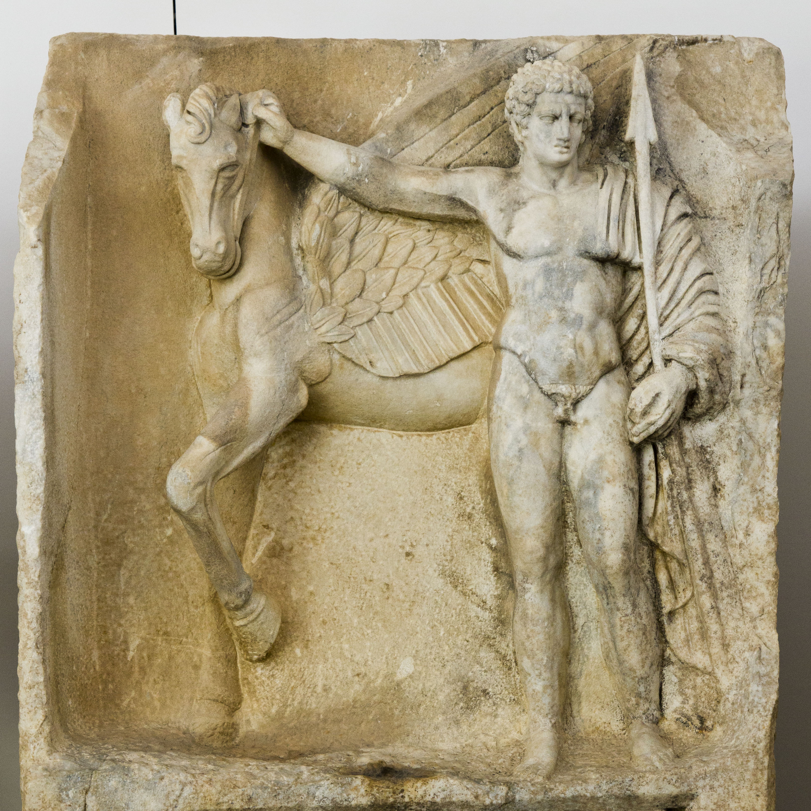 Bellerophon - Aphrodisias. Bellerophon was a Lykian hero, and was claimed as a founder of Aphrodisias. He holds the winged horse, Pegasus.